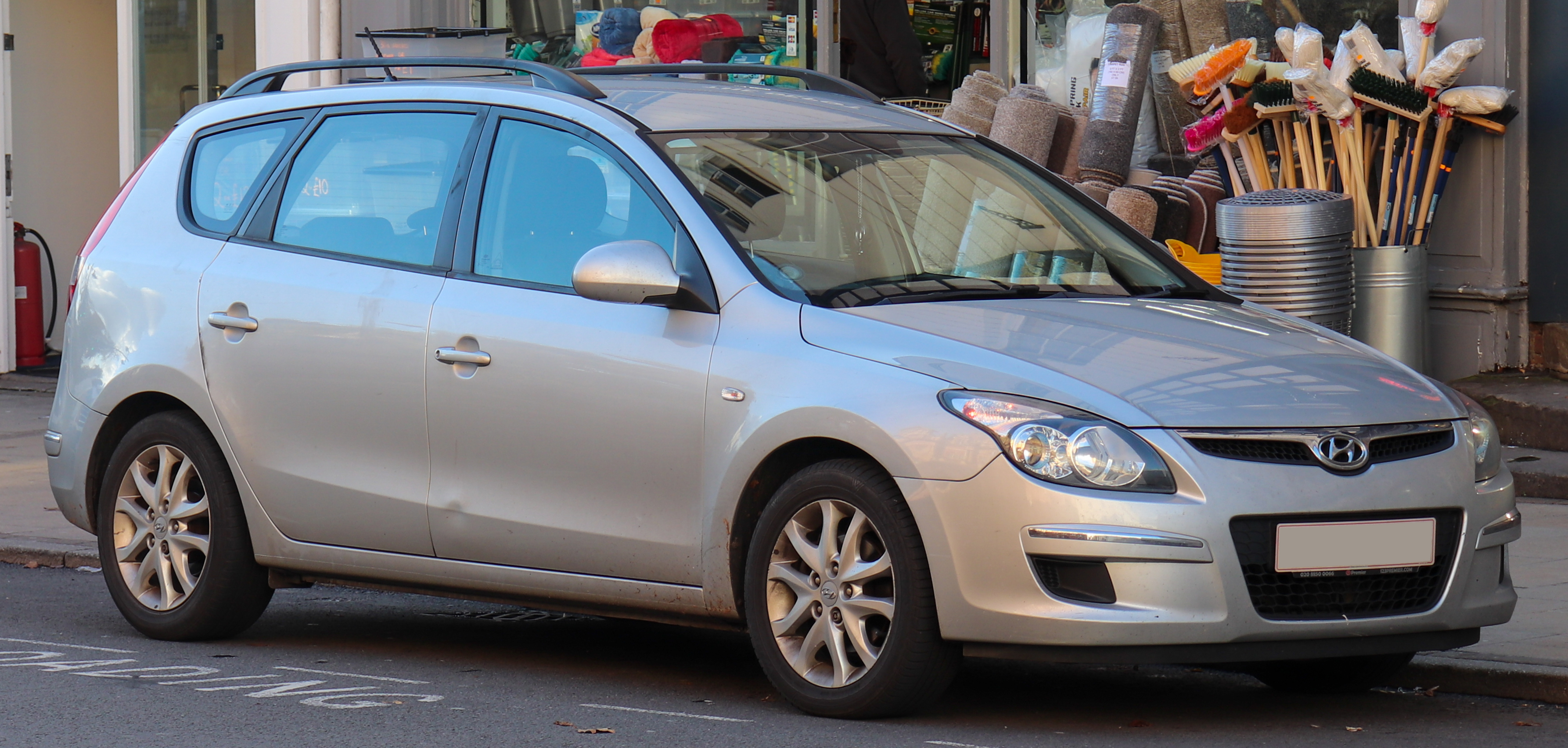 2010 Hyundai i30 Comfort CRDi Estate 1.6 Front Taken in Leamington Spa